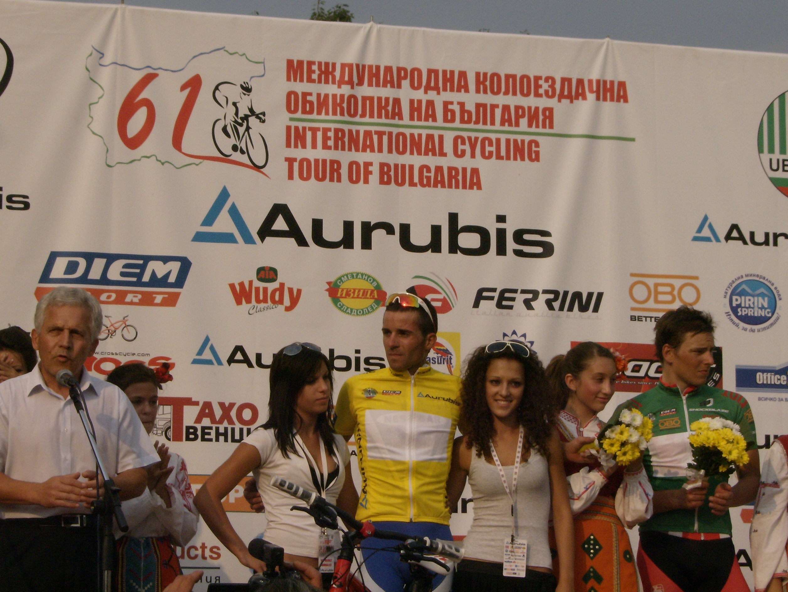 Мартин Грашев с жълтата фанелка на 6 етап от 61-та Обиколка на България по колоездене, 16.09.2011